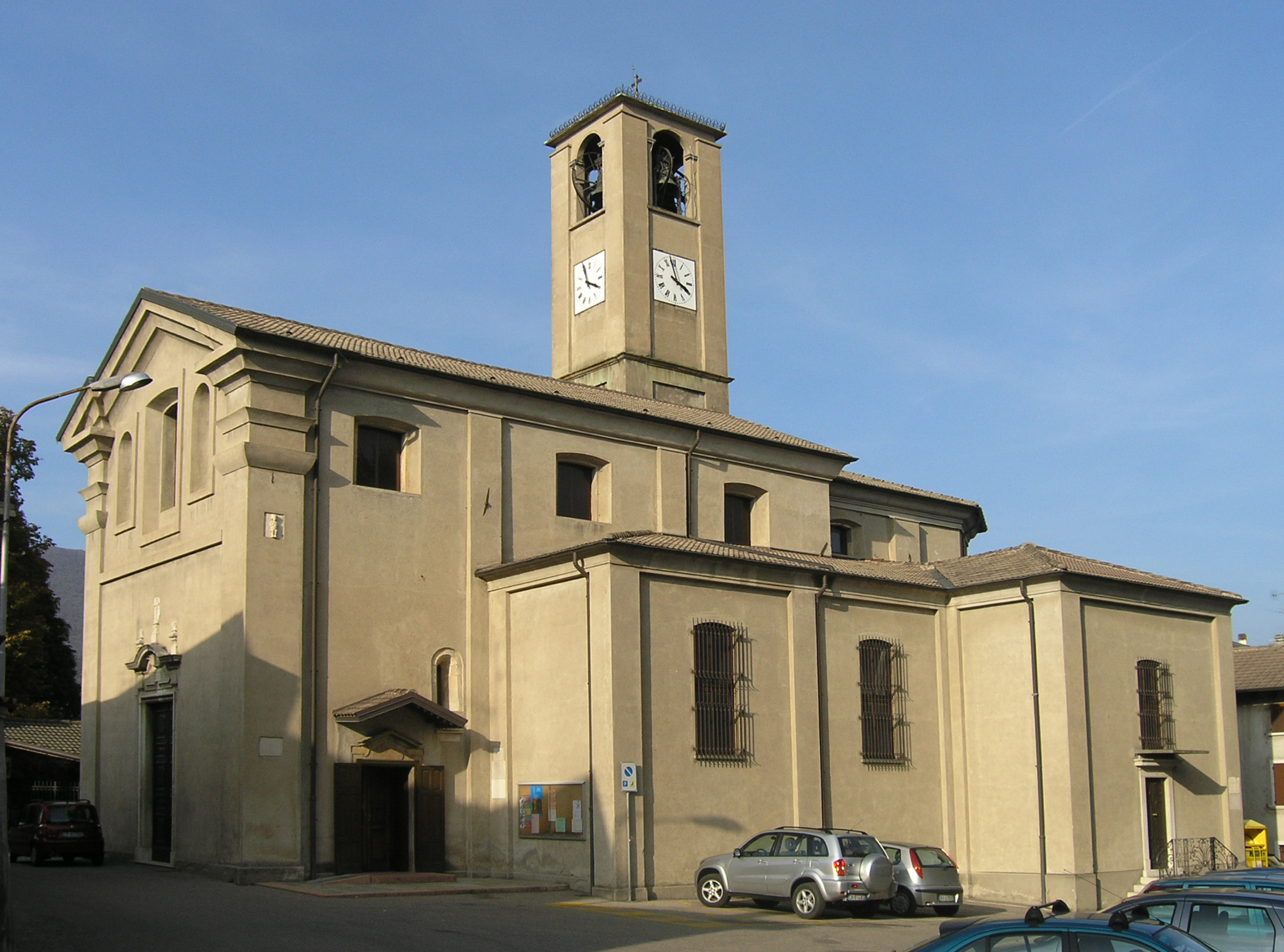 S. Peter and Paul, before restoration.